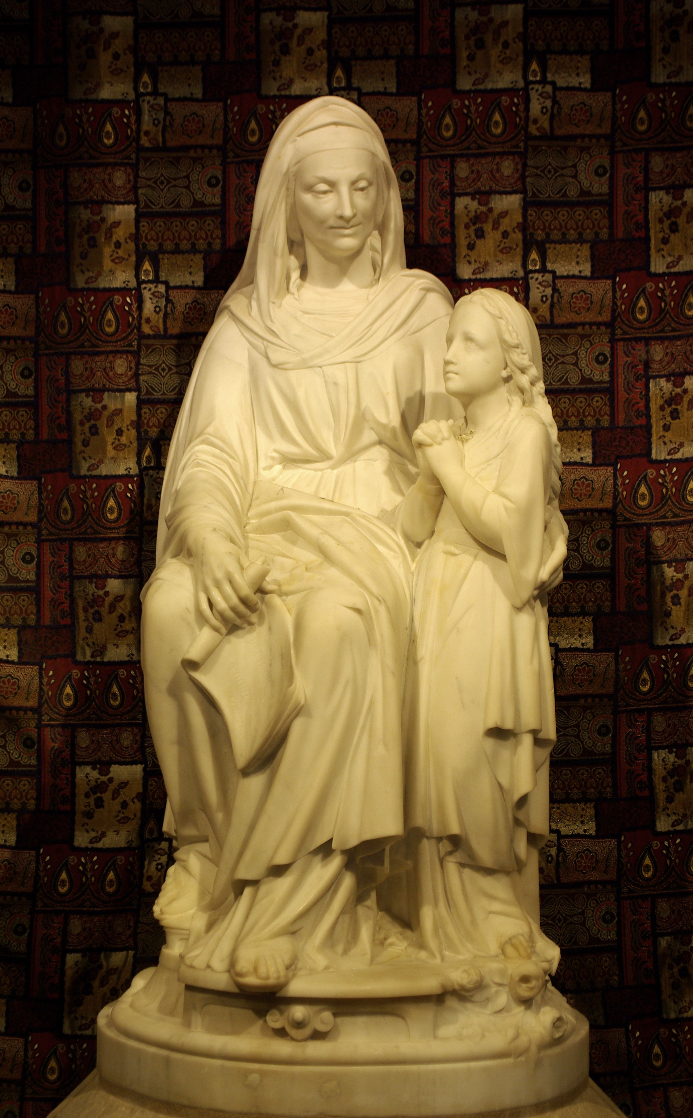 Jerusalem, St. Anna church.